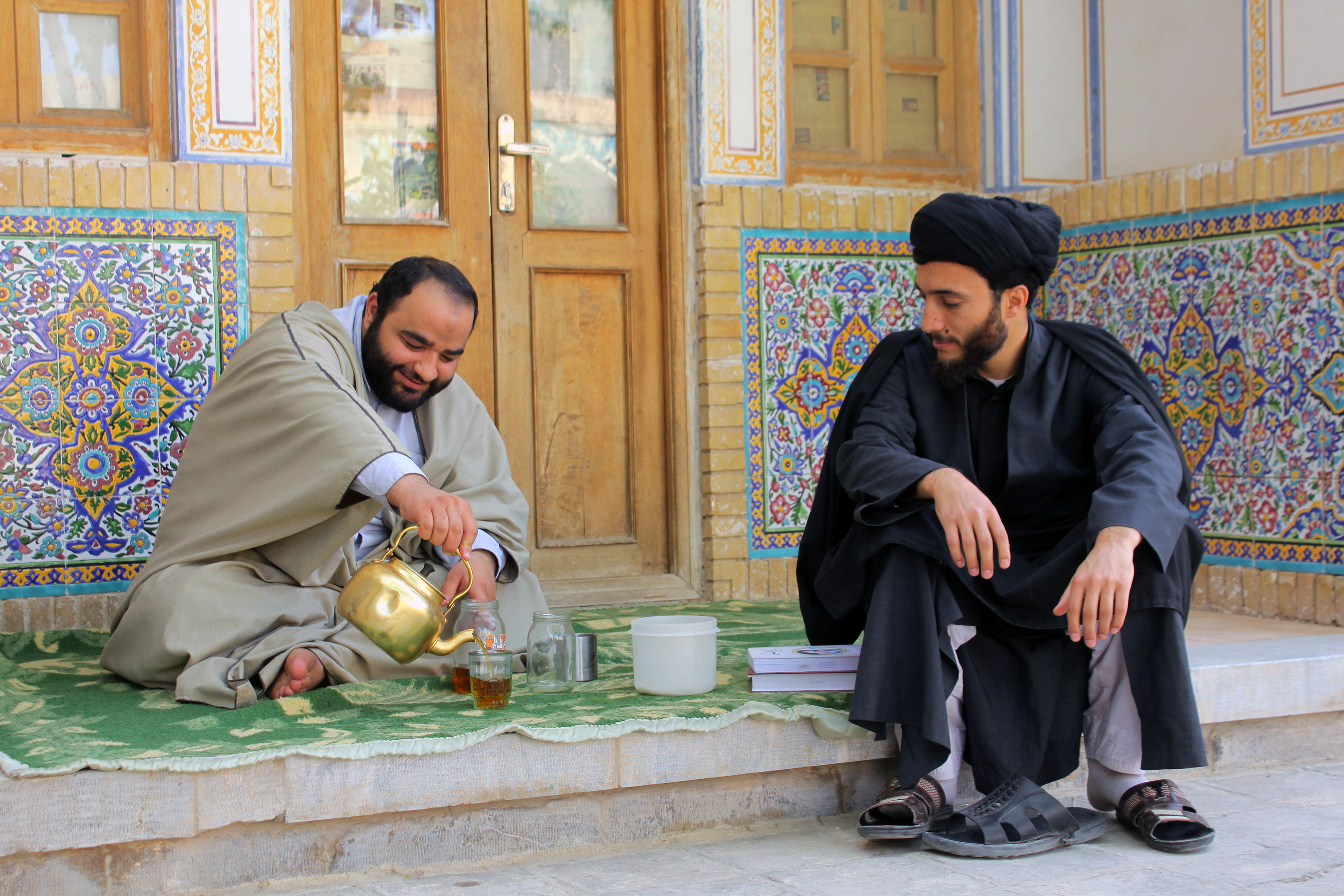 Clergy are some of the main and important formal leaders within certain religions.